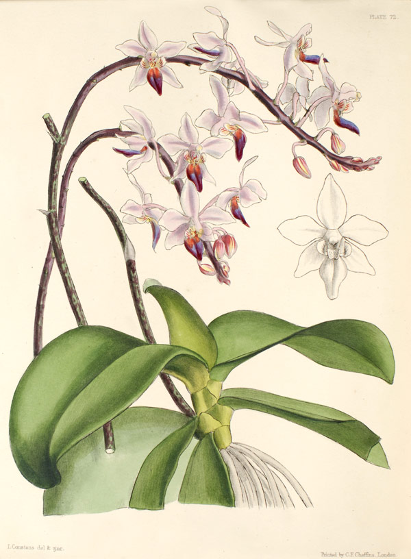 Phalaenopsis equestris (as syn. Phalaenopsis rosea)